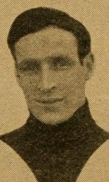 Canadian ice hockey player Charles Tobin of the Portland Rosebuds in the 1915–16 season.